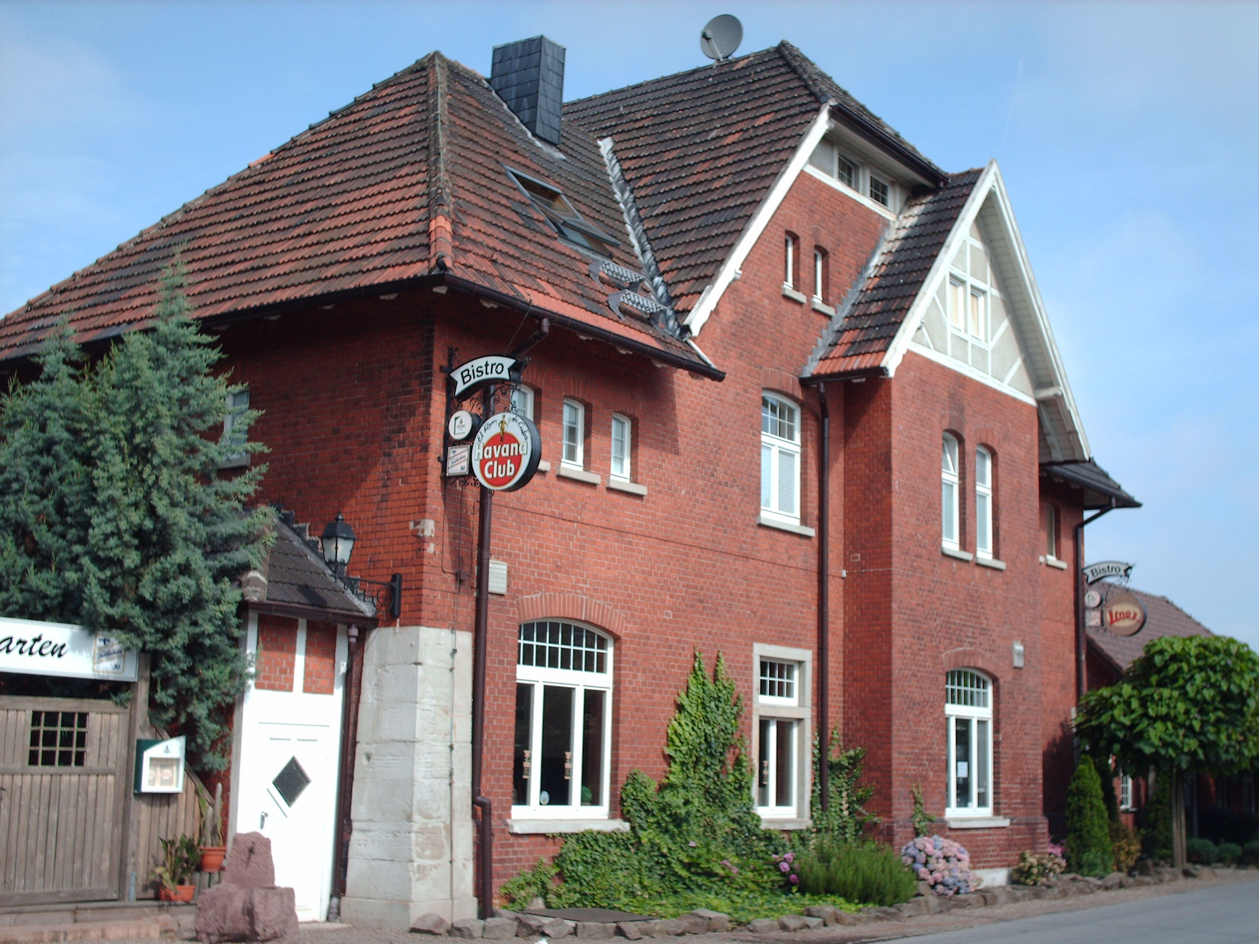 Dingden station, Hamminkeln, Germany check usage